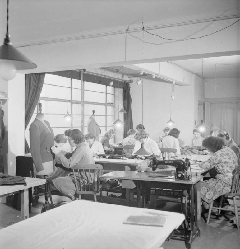 London Fashion Designers- the work of Members of the Incorporated Society of London Fashion Designers in Wartime, London, England, UK, 1944 A general view of women at work in the tailoring room at the fashion house of designer Norman Hartnell in London. They are mostly sewing garments by hand, although several sewing machines are visible in the photograph. One women is tacking a garment to a stand.